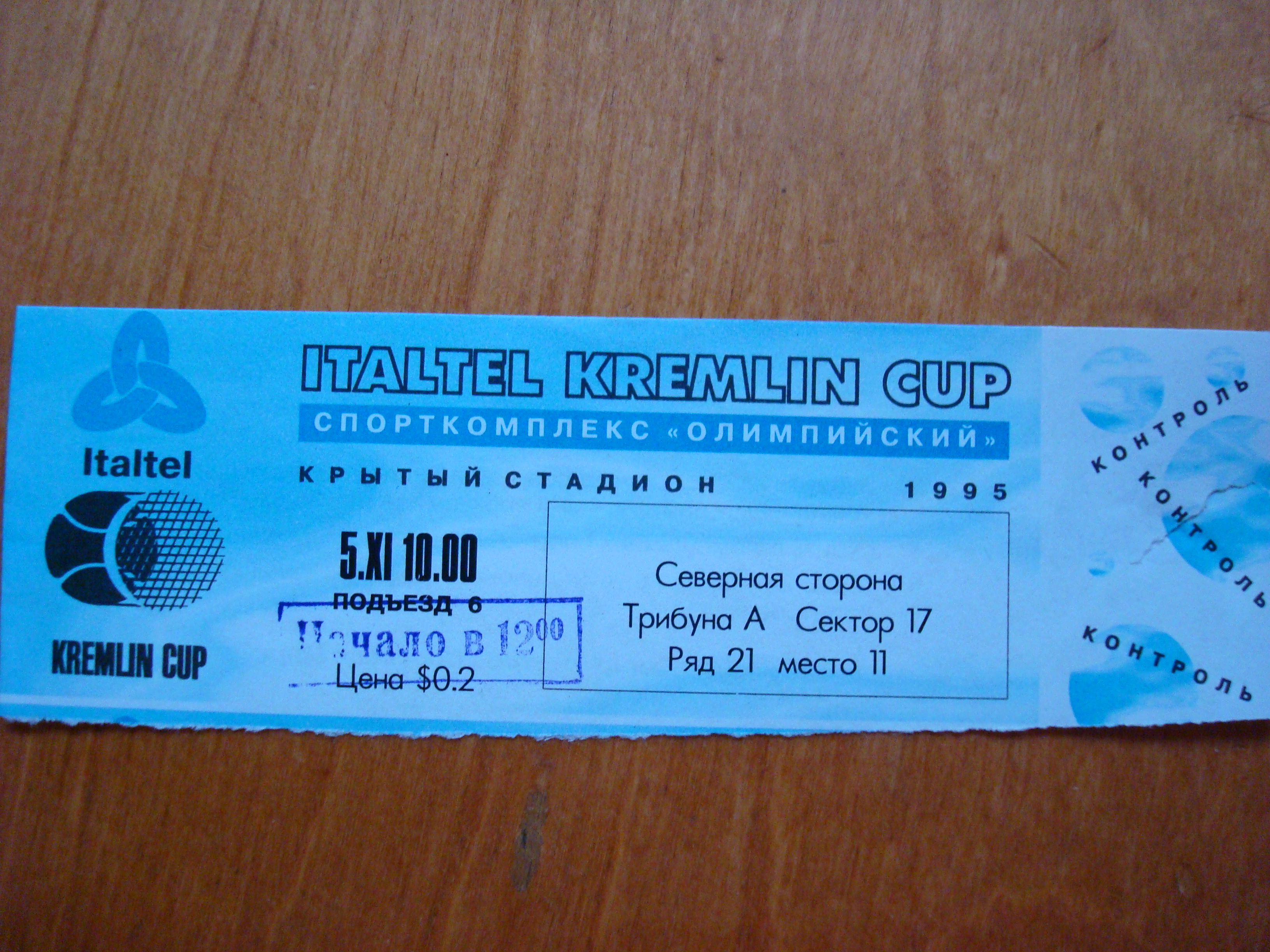 1995 tennis Kremlin Cup's ticket